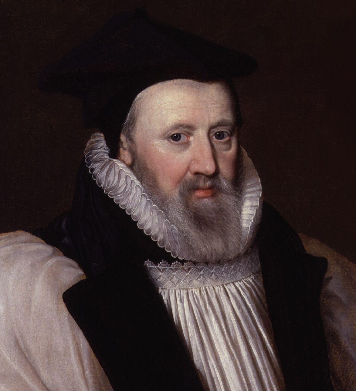 Cropped detail of George Abbot (1562-1633), Archbishop of Canterbury, by unknown artist.